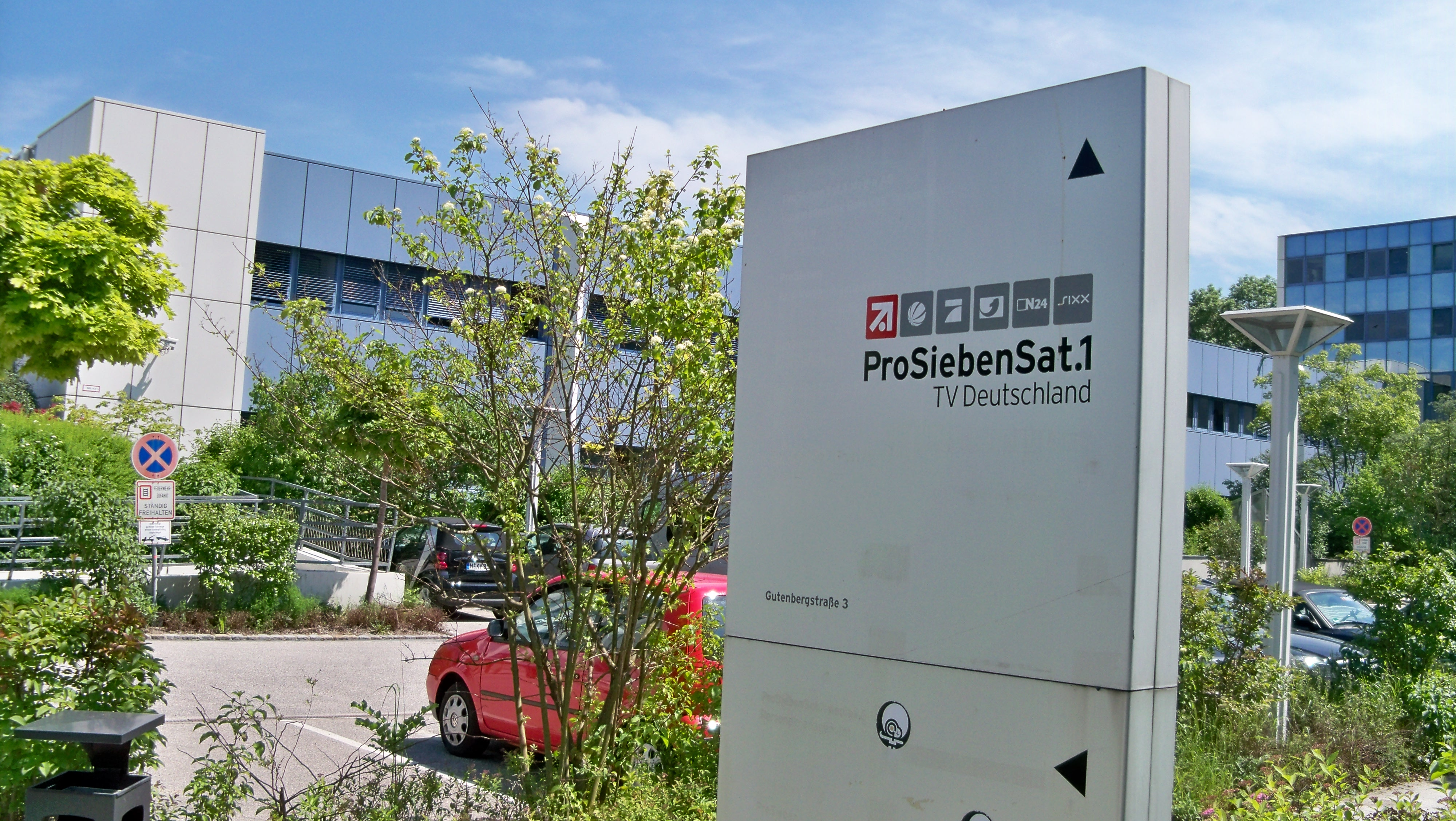 ProSiebenSat.1 TV Deutschland (signboard) in Unterföhring, Germany.